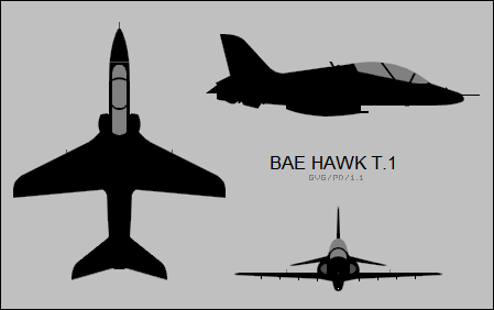 3-view silhouettes of the BAe Hawk T.1